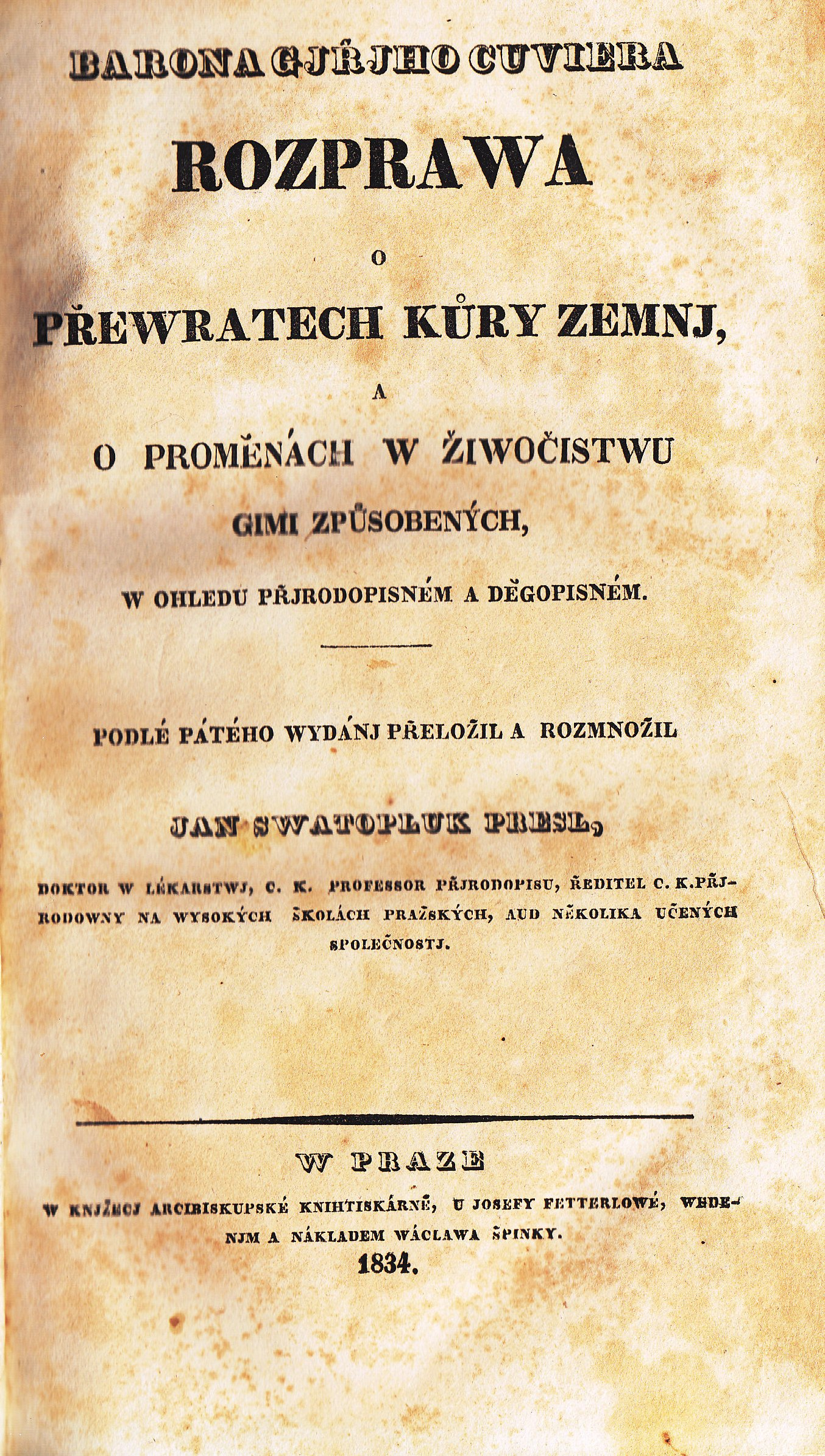 Title page of the 1834 Czech edition of George Cuvier's "Discours sur les révolutions de la surface du globe et sur les changements qu'elles ont produits dans le règne animal"